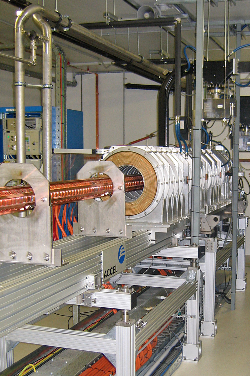 The linear accelerator (linac) at the Australian Synchrotron, Clayton, Victoria.